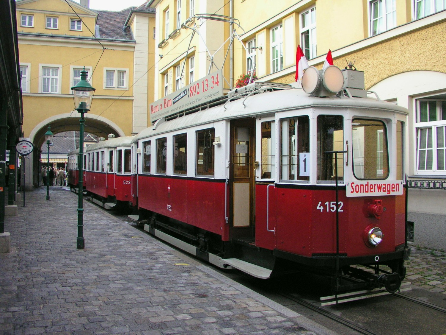 Historic M-type tramcar with m-type trailers in Grinzing terminus of line "38"